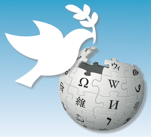 Official Wikipedia for Peace Logo